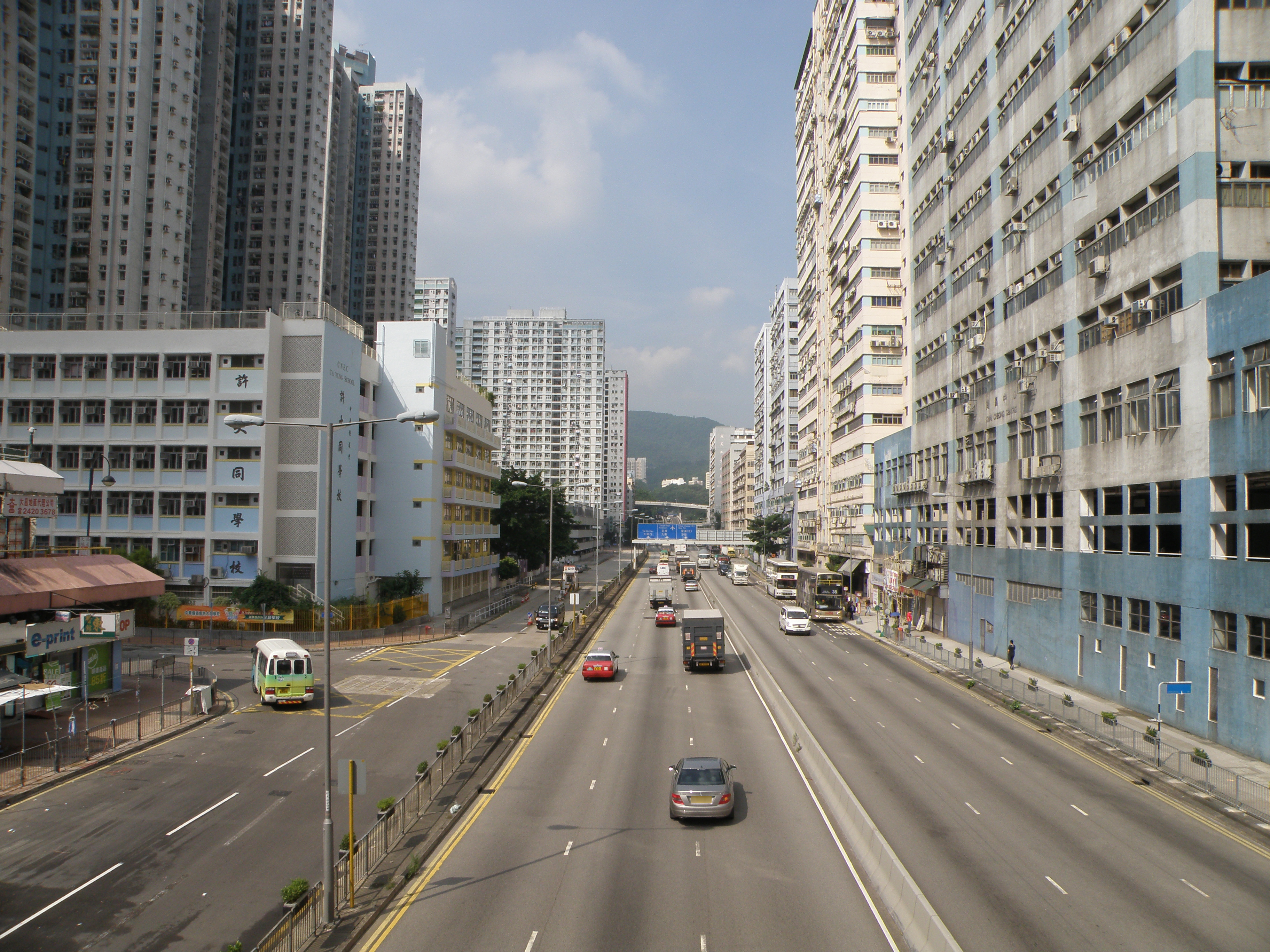 Kwai Chung Road in Kwai Hing, Hong Kong.